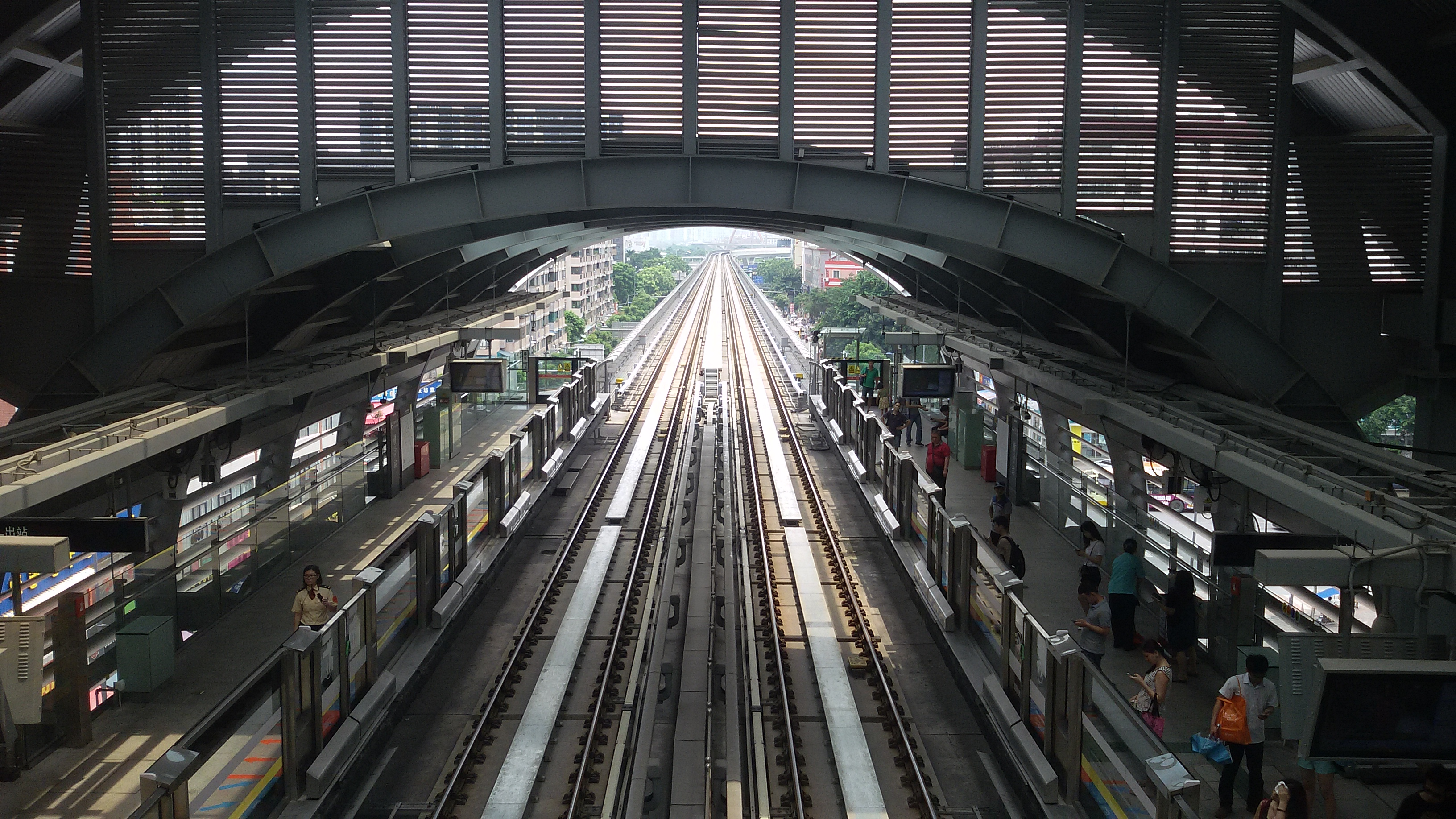 The Full Sight Platform for Hengsha Station, Guangzhou Metro. 粵語: 廣州地鐵，橫沙站嘅站台全景。